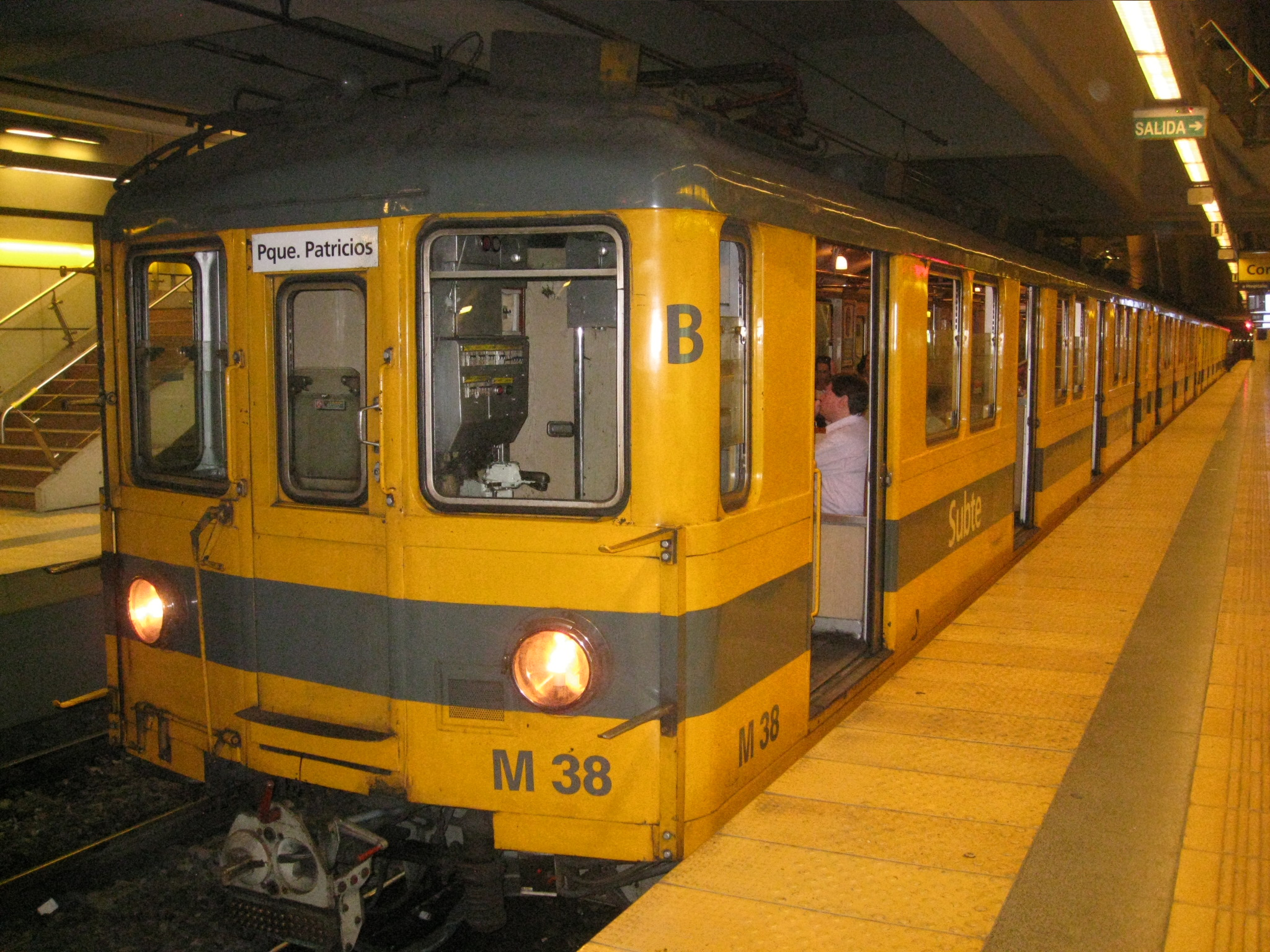 Fleets used in subway line H in Buenos Aires.